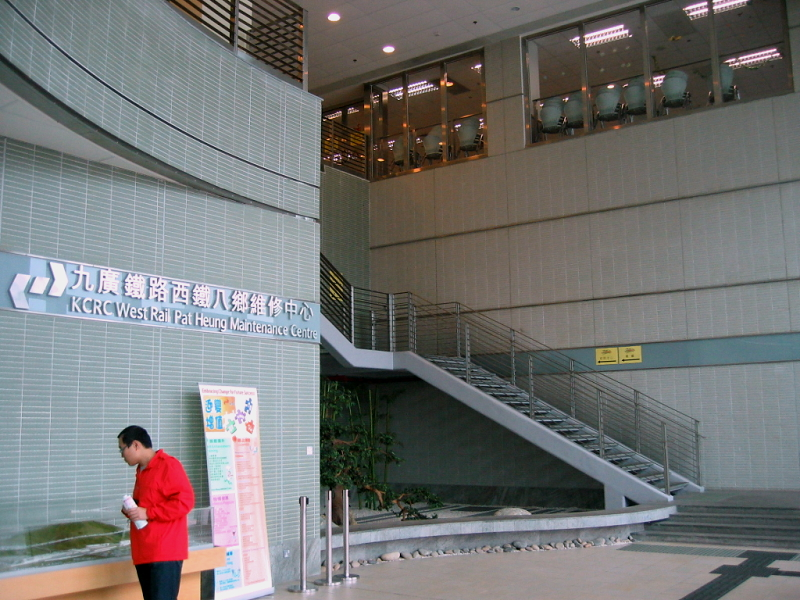 Pat Heung Maintenance Centre Lobby